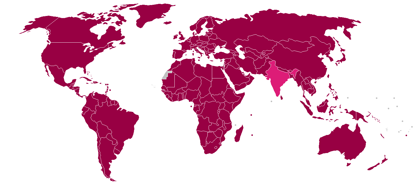 Worldwide laws regarding killing cattle for consumption Light red: Killing cattle is partially illegal Dark red: Killing cattle is legal Grey: Unknown